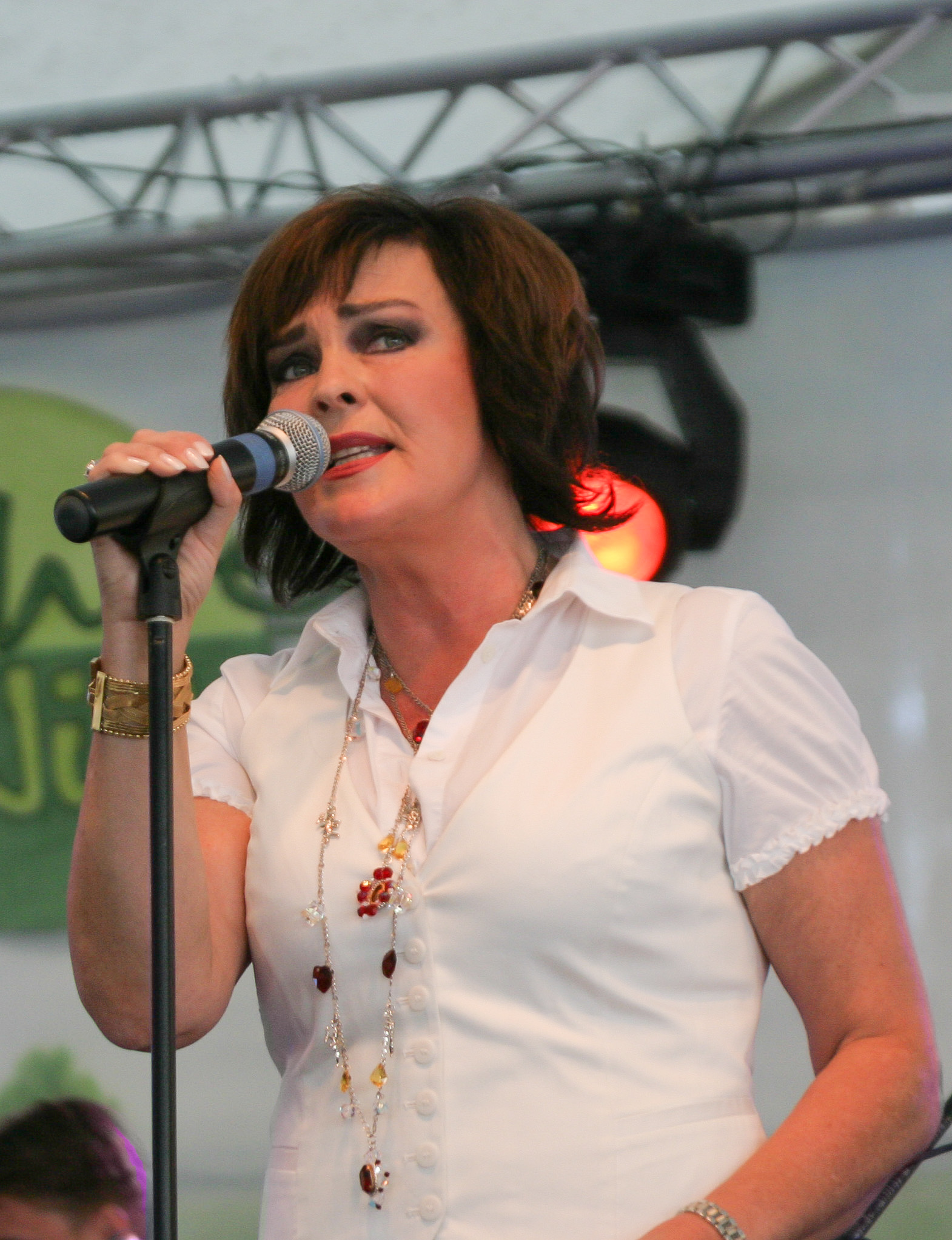 Paula Koivuniemi in Vihreät Niityt music festival in the summer 2006.